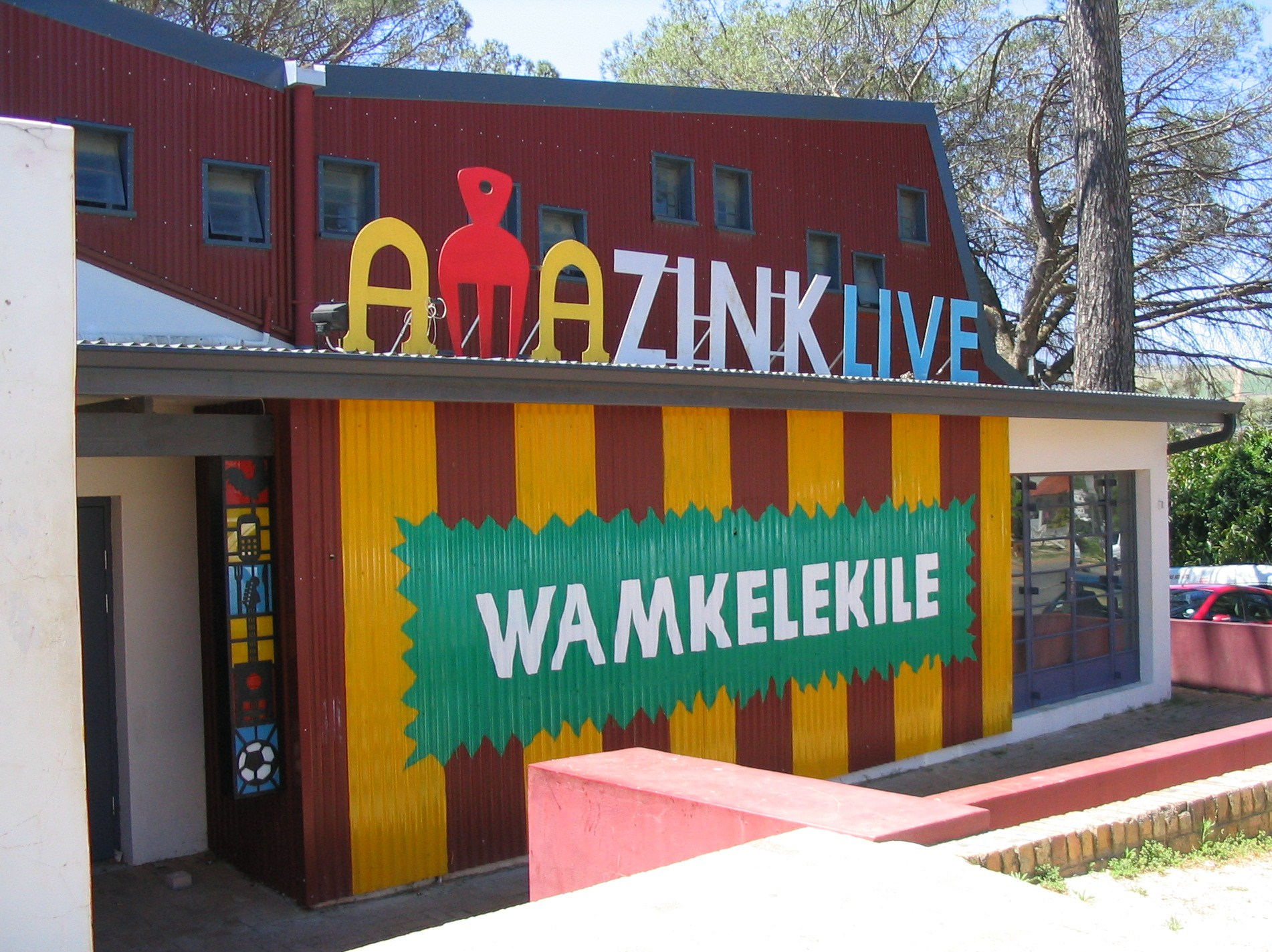 AmaZink Live township theatre restaurant, Kayamandi, Stellenbosch (Wamkelekile means "Welcome")